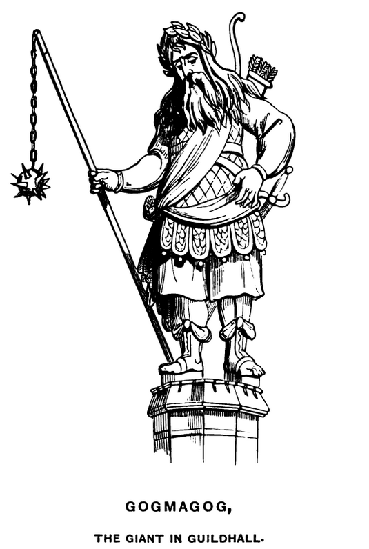 One of two wooden figures displayed in the Guildhall in London, carved by Captain Richard Saunders in 1709, replacing earlier wicker and pasteboard effigies which were traditionally carried in the Lord Mayor's Show. They represent the legendary characters of Gogmagog and Corineus, but were later known as Gog and Magog. Both figures were destroyed during the London Blitz 1940; new figures were carved in 1953.